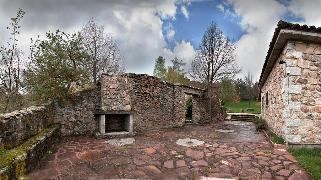 Vista en perspectiva de parte de las ruinas y reconstrucción de la Venta de Cornejo